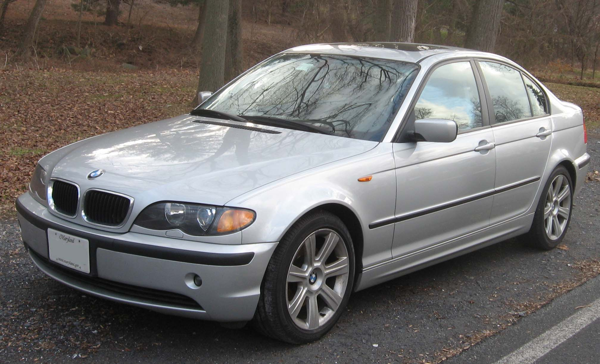 2002-2005 BMW 325i photographed in Kensington, Maryland, USA.